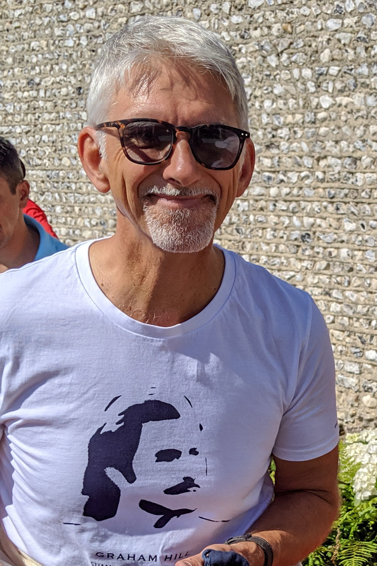 Damon Hill 2019 Goodwood Festival of Speed.